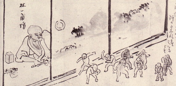 Akago-no-kai (赤子の怪, ghost babies) from the Buson Youkai Emaki (蕪村妖怪絵巻)